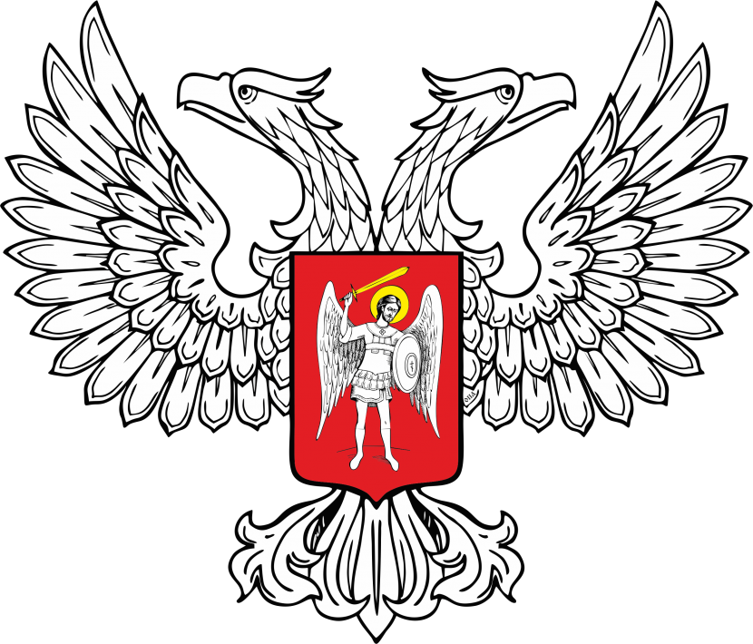 Official Donetsk People's Republic coat of arms